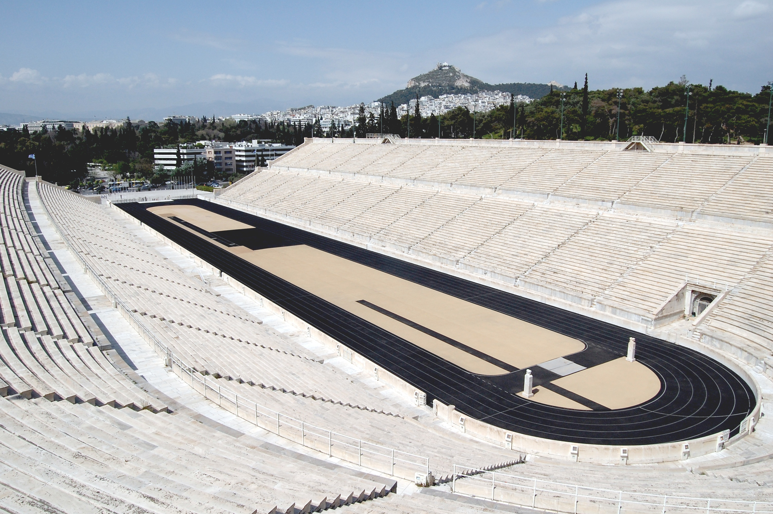 The Panathinaiko Stadium (Kallimarmaro) in Athens, Greece, looking northeast.